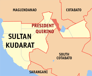 Map of the Sultan Kudarat showing the location of President Quirino